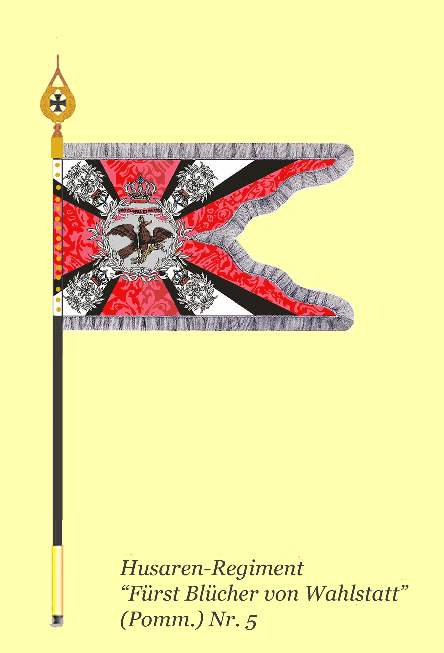 Colors of the royal prussian 5th Regiment of Hussars